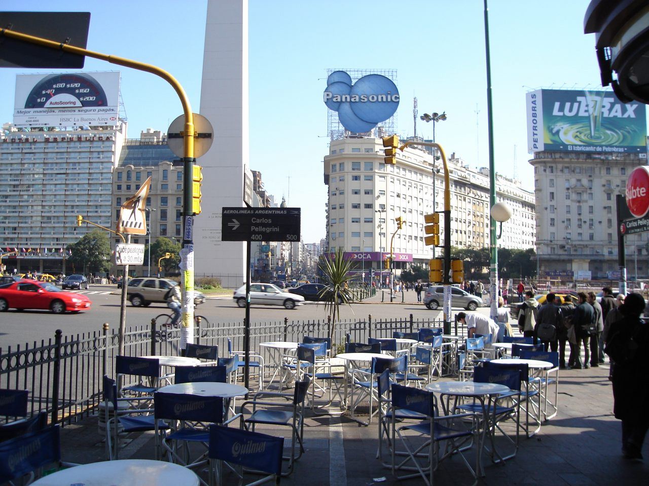 Intersección de la Avenida Corrientes y la calle Carlos Pellegrini, barrio de San Nicolás, frente al Obelisco porteño. Se aprecia una boca de la estación de subte Carlos Pellegrini con la nueva señalética de Metrovías.